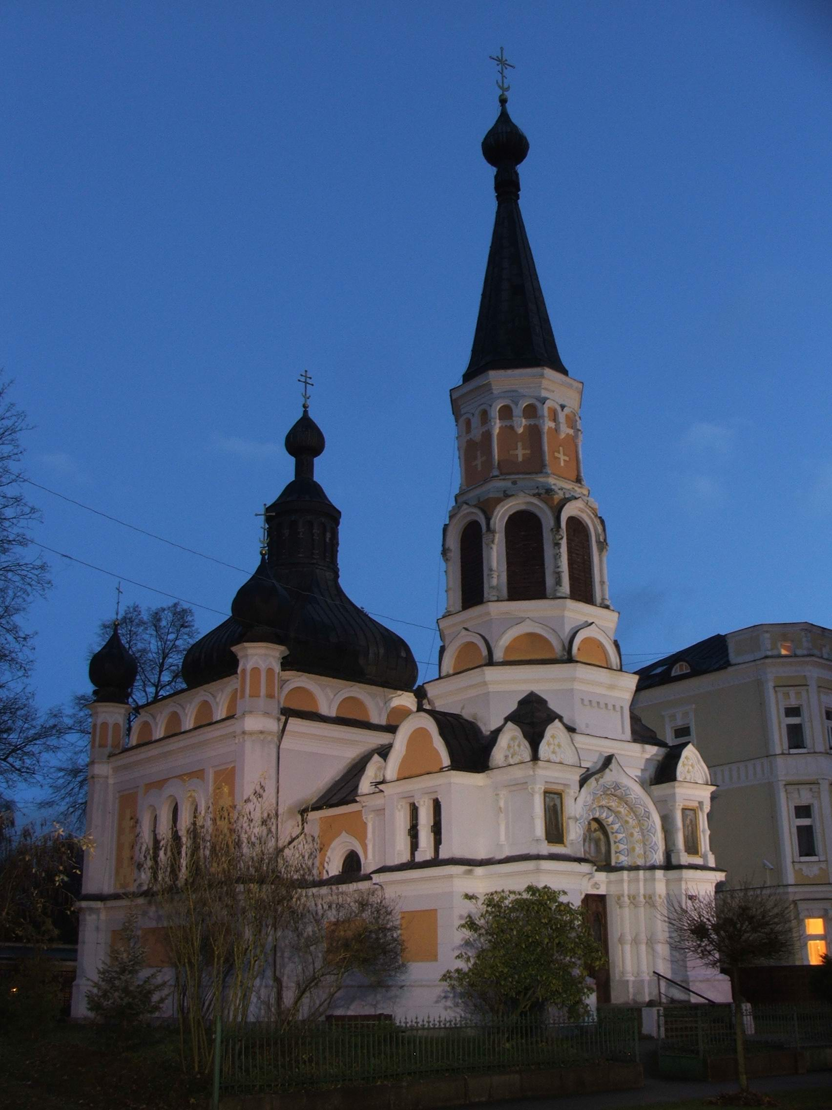 Orthodox church of St. Olga in Františkovy Lázně (Franzenbad), Czechia.